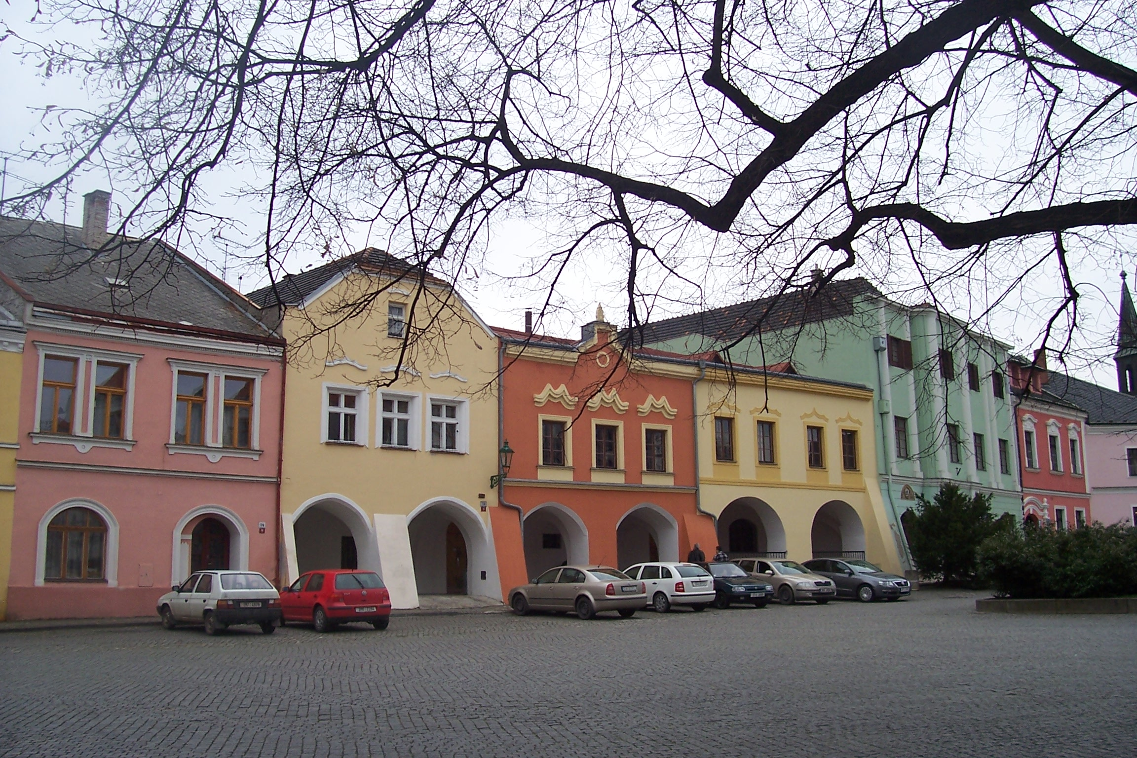 Přerov , Czech Republic. Southeast side.